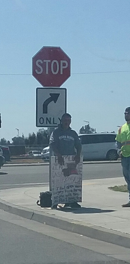 Homeless man at West Shaw Ave. (Fresno CA 93722)